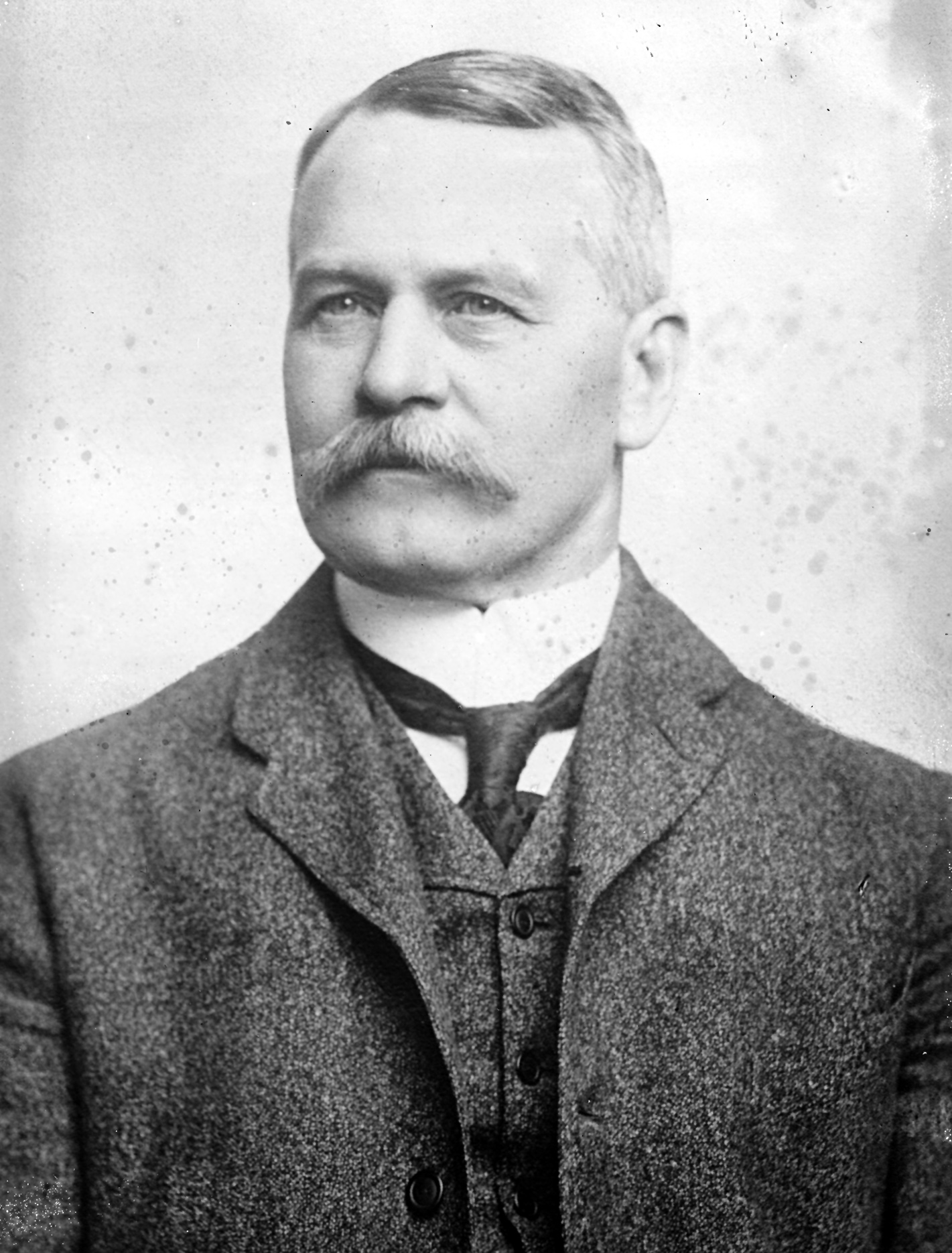 Edwin F. Sweet, US Representative from Michigan